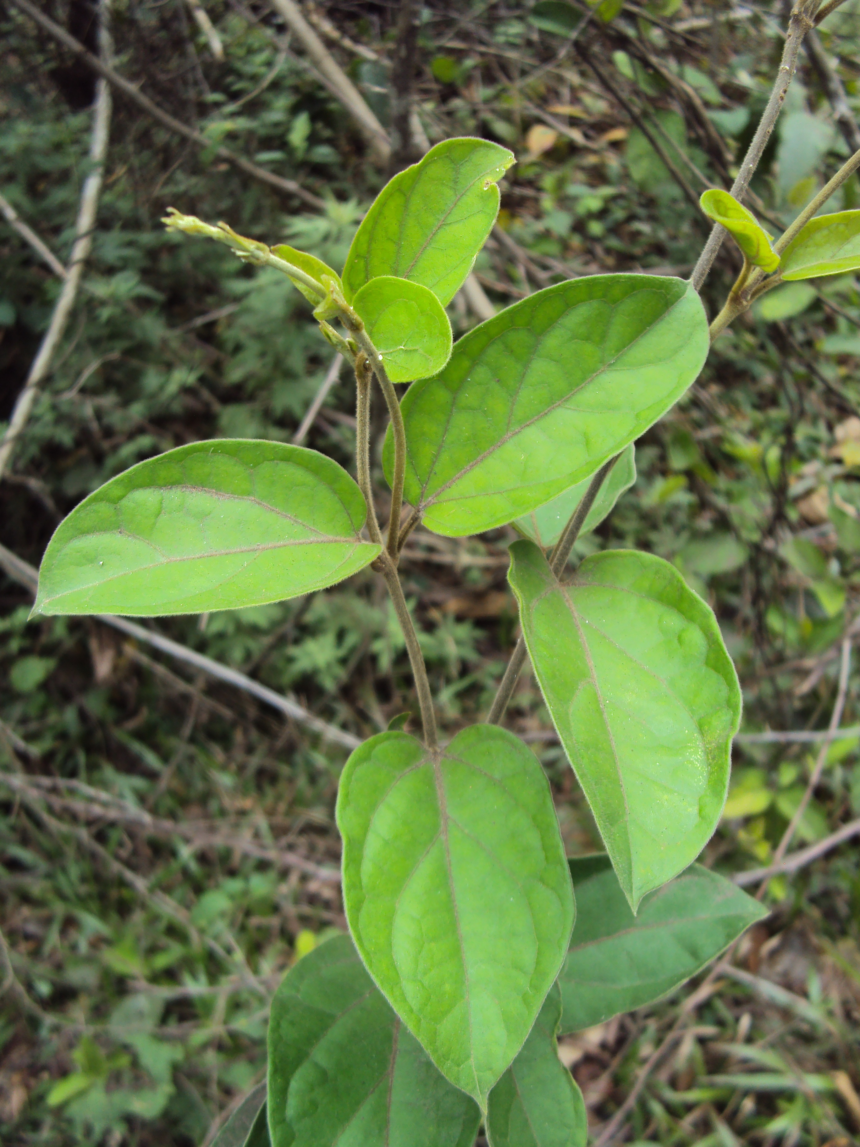 Marsdenia sylvestris